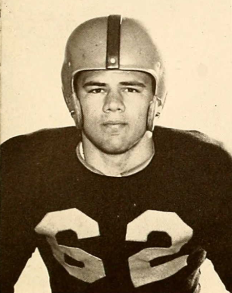 Photograph of University of Illinois athlete Bill Vohaska